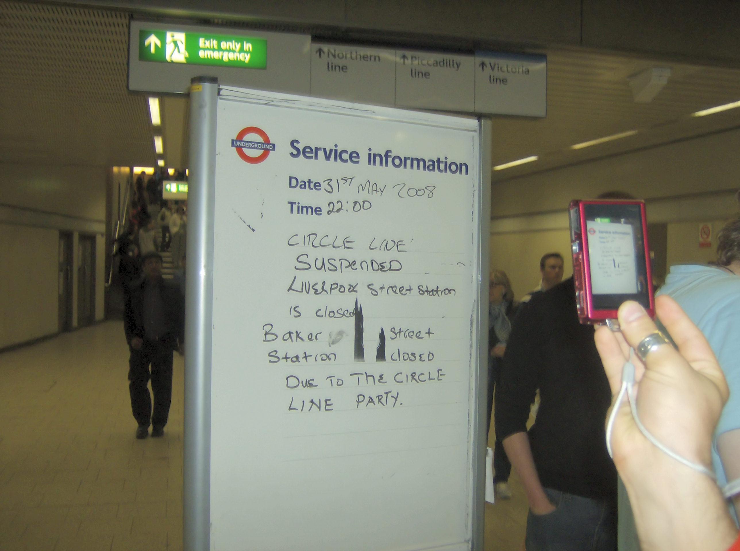 A Service Information board at King's Cross St. Pancras tube station on the London Underground announces that the entire Circle Line has been suspended due to a Circle line Party, as well as two tube stations.